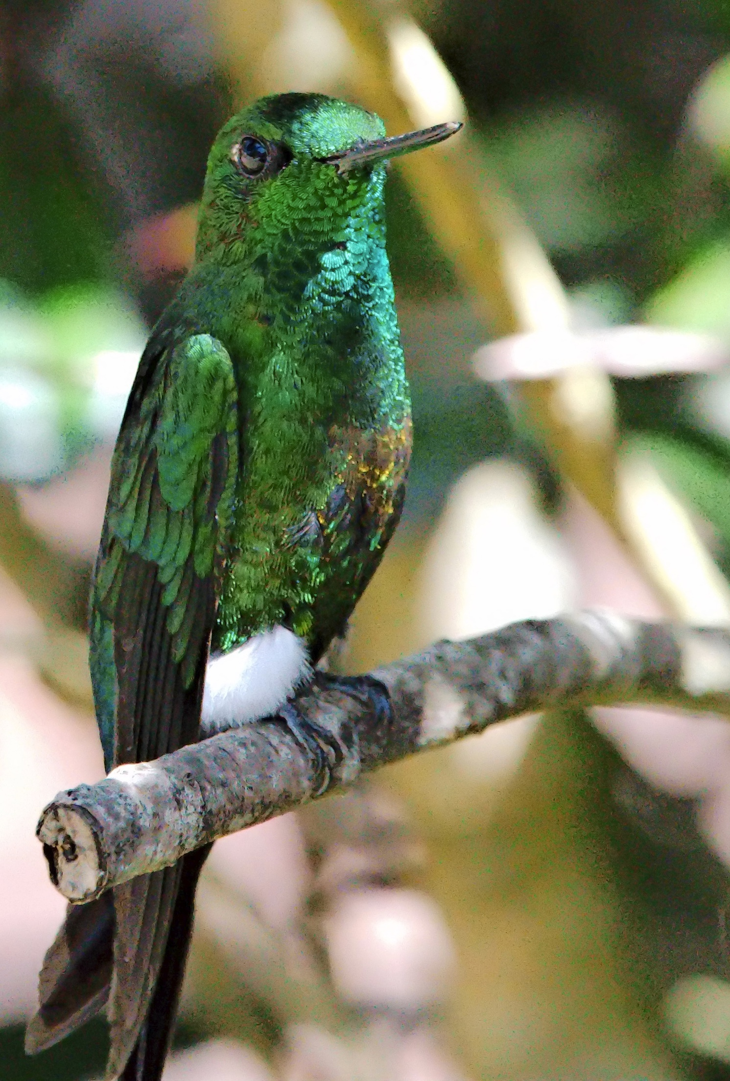 Coppery-bellied Puffleg perched at La Calera Hummingbird Garden (Observatorio des Colibries)